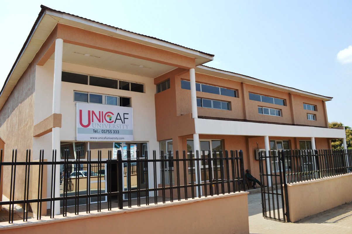 Malawi Campus of Unicaf University